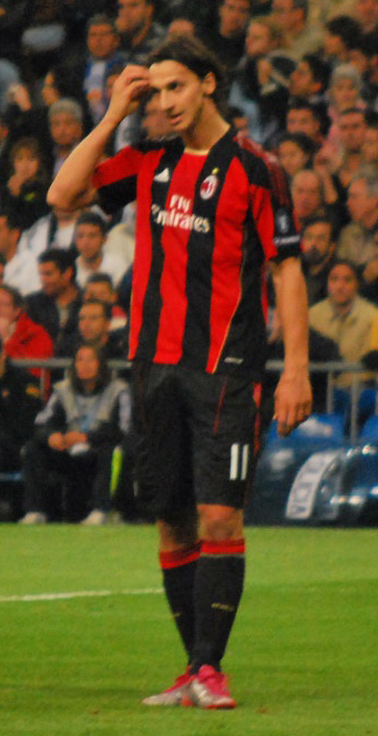 Ibra playing for AC Milan.